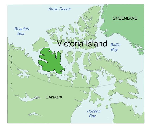 Created based on images from the CIA's World Fact Book.